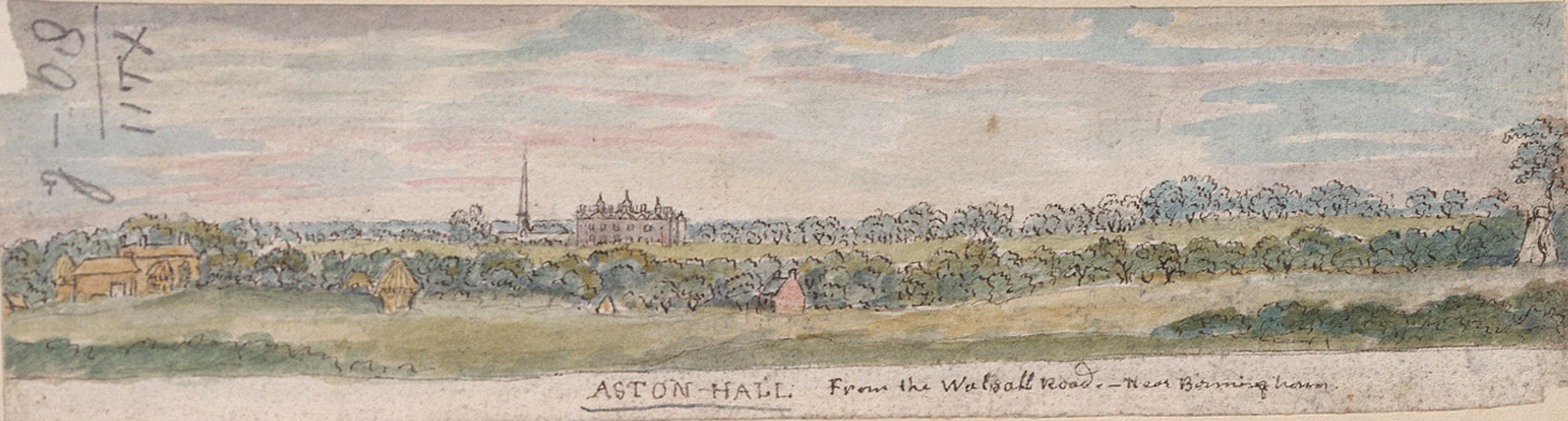 Aston Hall from the Walsall road near Birmingham. A watercolour painting with pencil. Now part of the British Library's King George III Topographical Collection. What was "the Walsall road" is the modern A34, in this location now known as Birchfield Road.